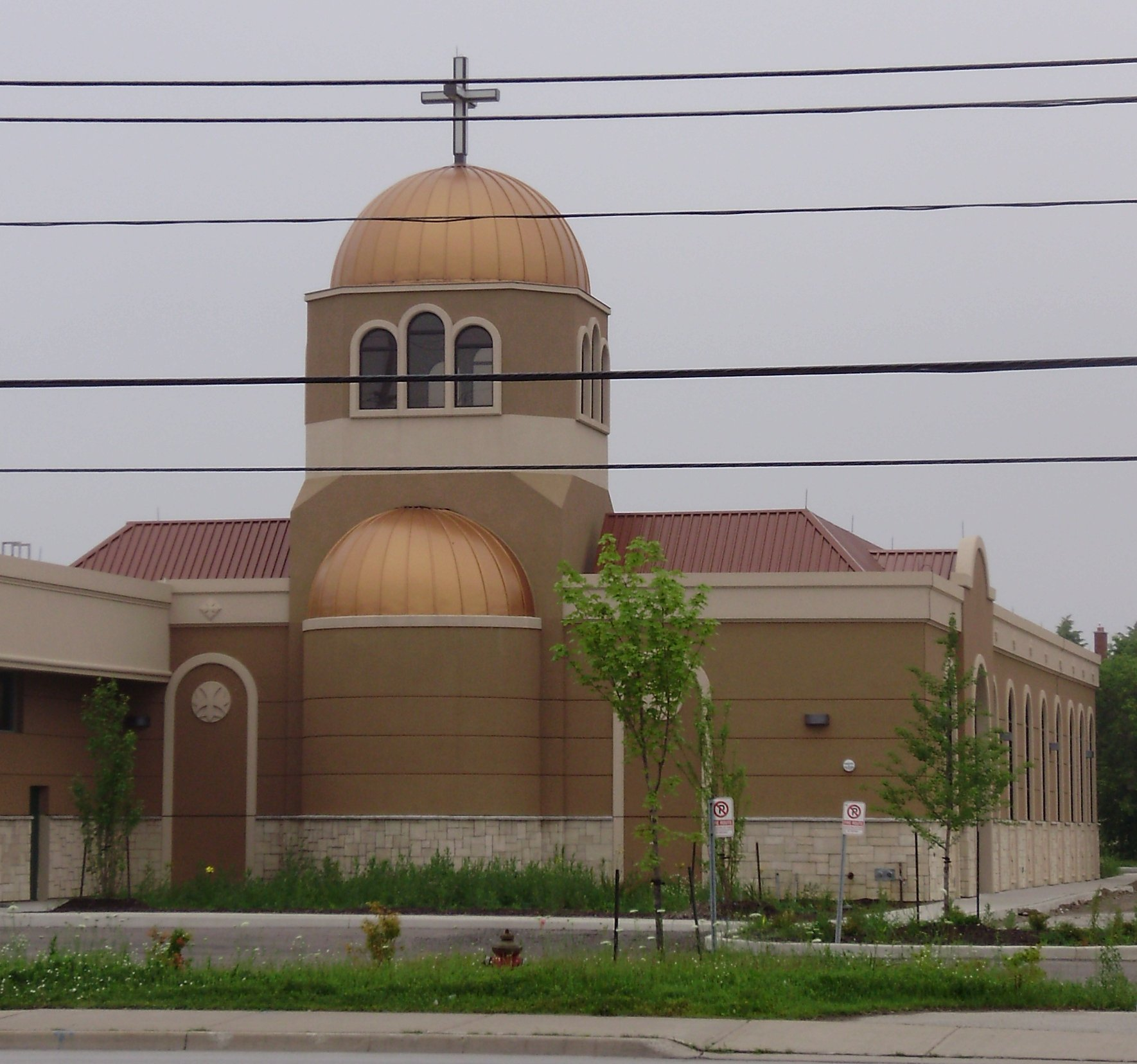 Saint Mina and Saint Kyrillos Coptic Orthodox Church in Mississauga, Canada, photographed from the south side of Dundas Street East.